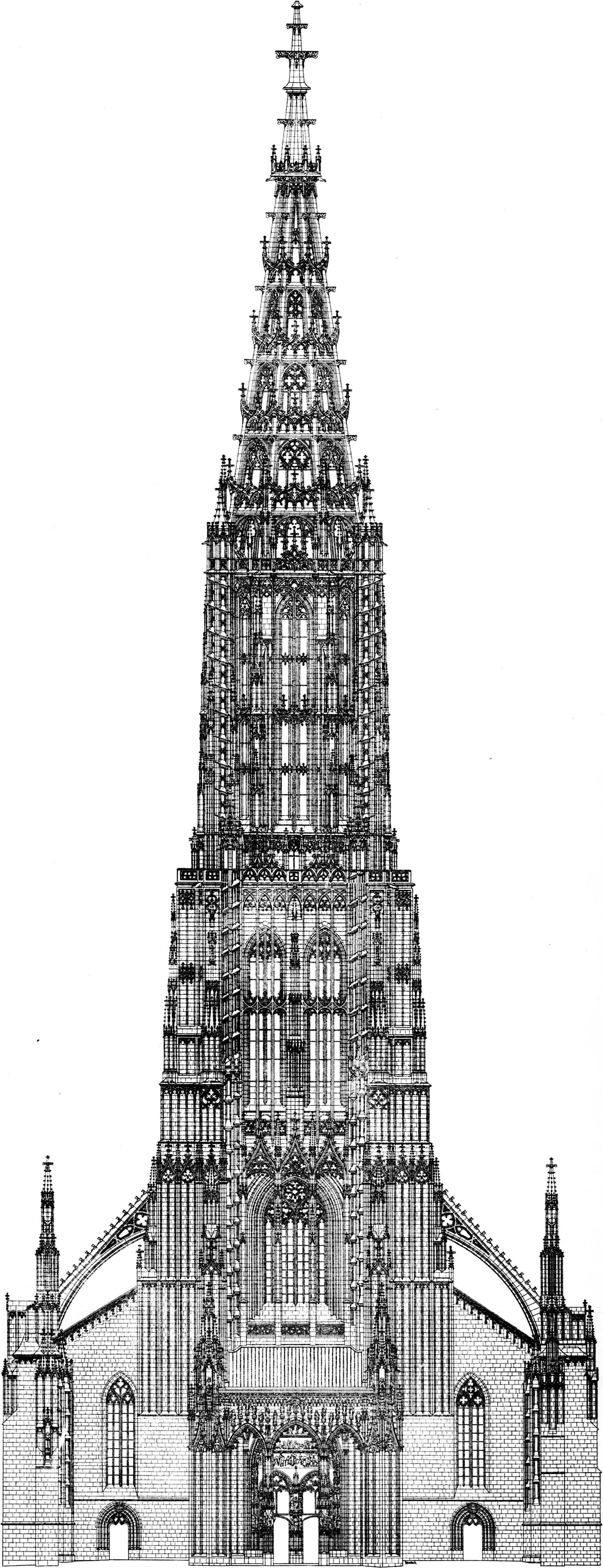 Ulm Minster, front elevation tower.